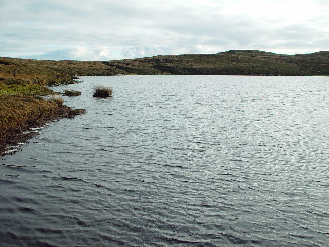 Loch of Stanefield, Whalsay. Looking south east along the shoreline of the Loch of Stanefield, Whalsay